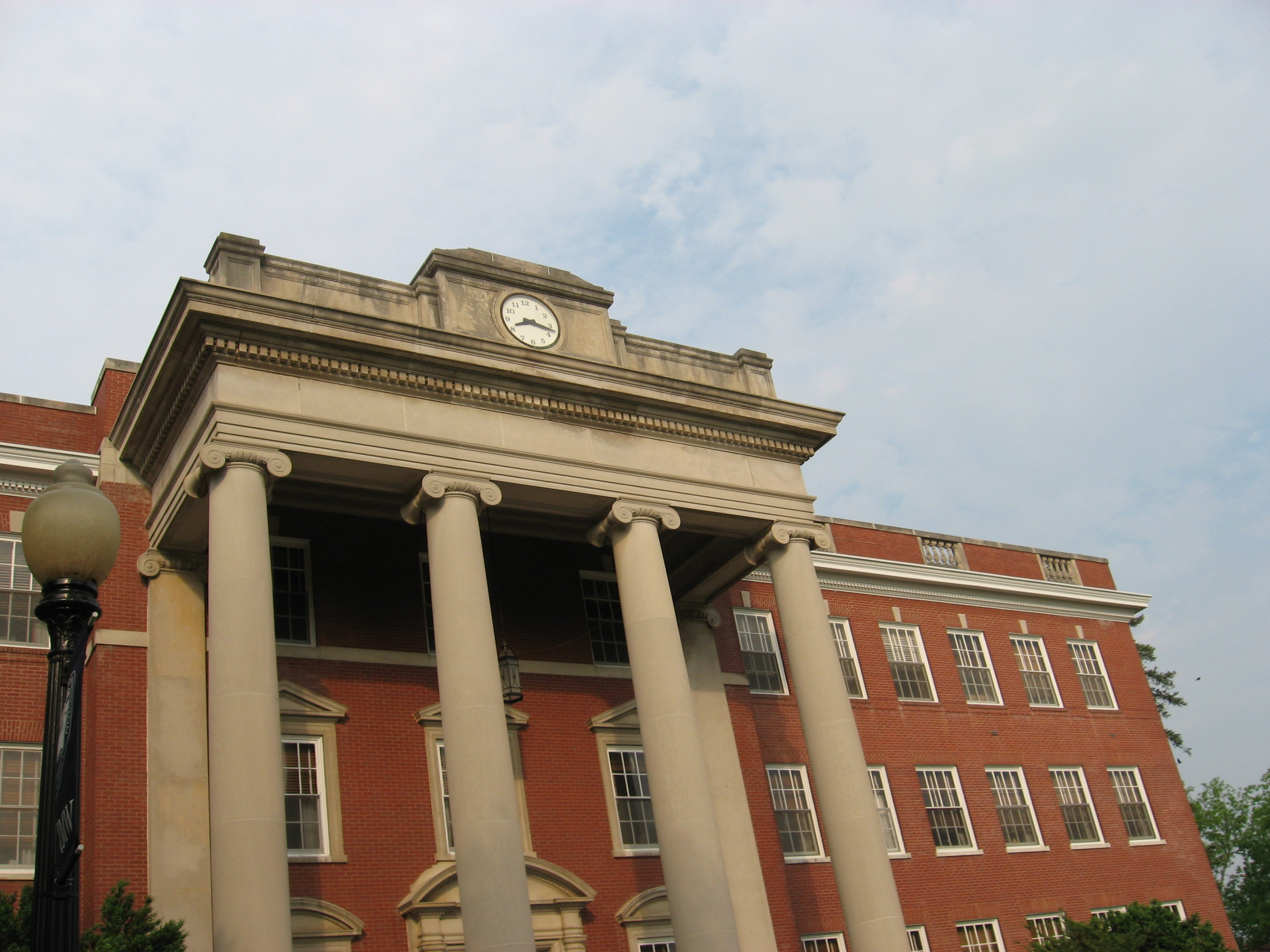 George Washington Hall at the University of Mary Washington in Fredericksburg, Virginia.